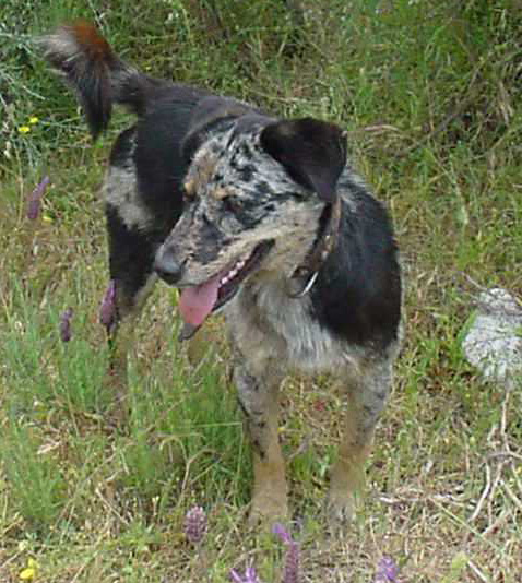 Female of Leonese shepherd dog (Carea leonés) at the Soriana Occidental drove road near Béjar